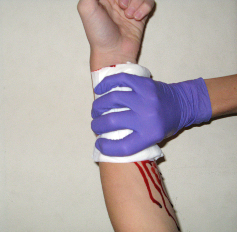 An arm laceration. The rescuer is applying direct pressure and elevating the arm of the victim.